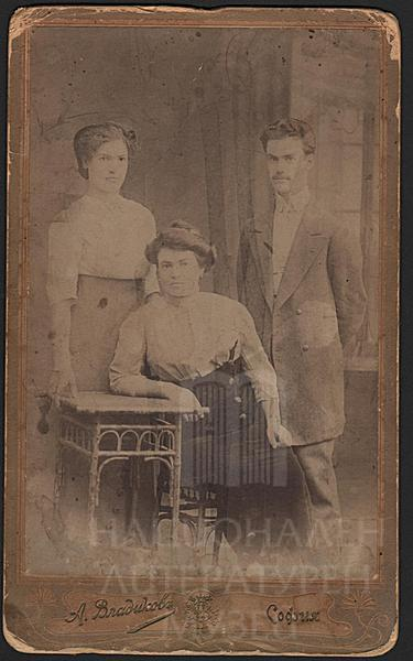 Nikola_Yanev_and_his_siters_Bozhia_and_Velika,_Sofia_1906